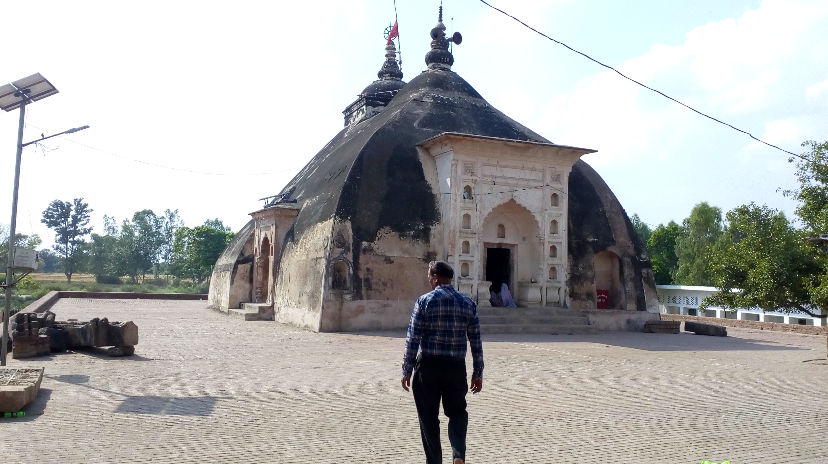 A nearby ancient temple in behta bujurg village.